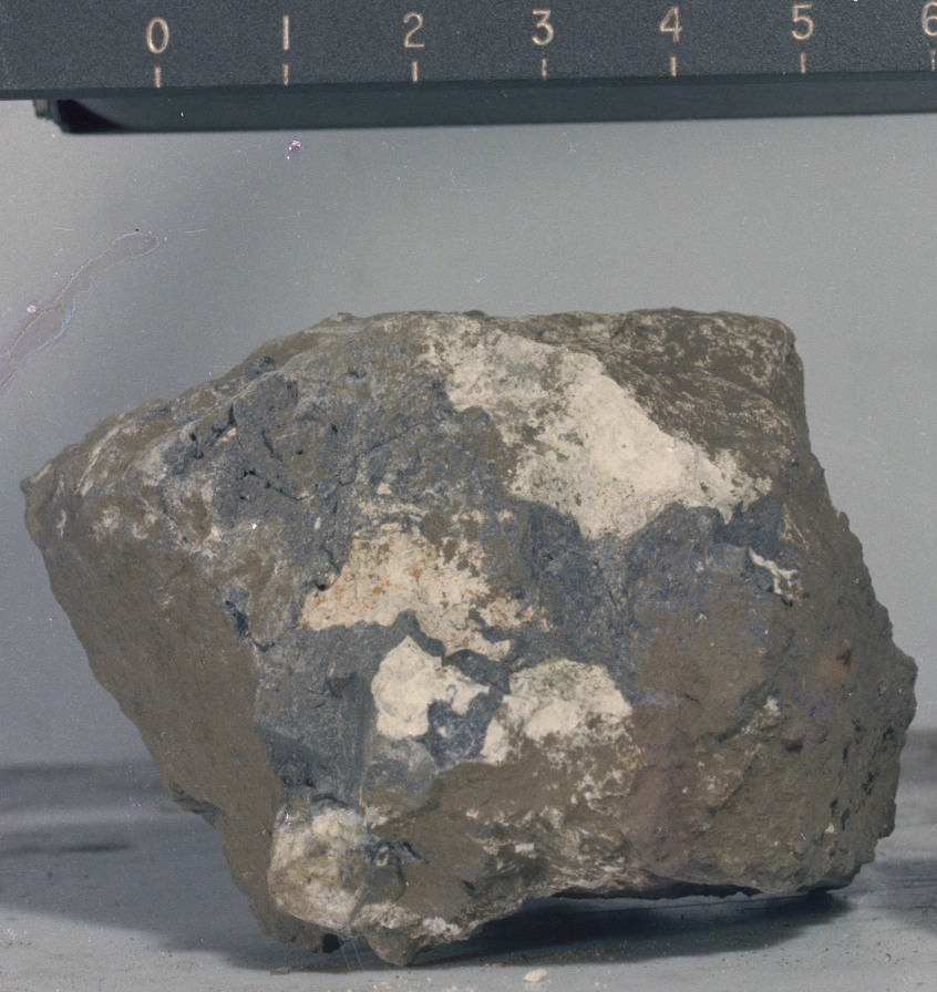 Breccia, Apollo 15 lunar sample 15445, collected at Spur crater (Station 7) on the moon. Scale bar at top is in cm.